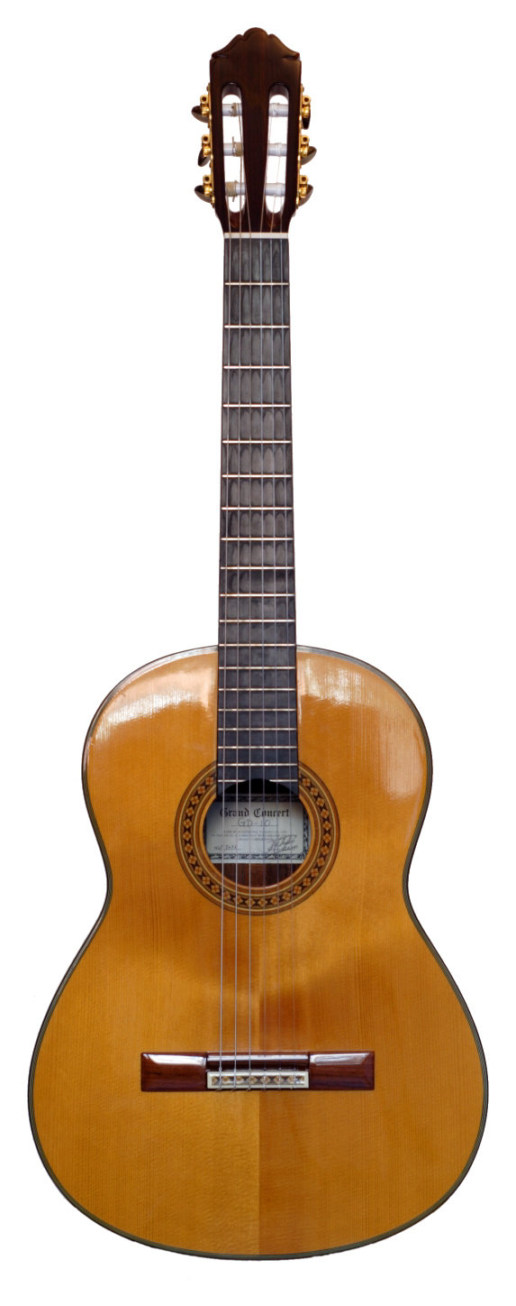 A classical guitar (front view)